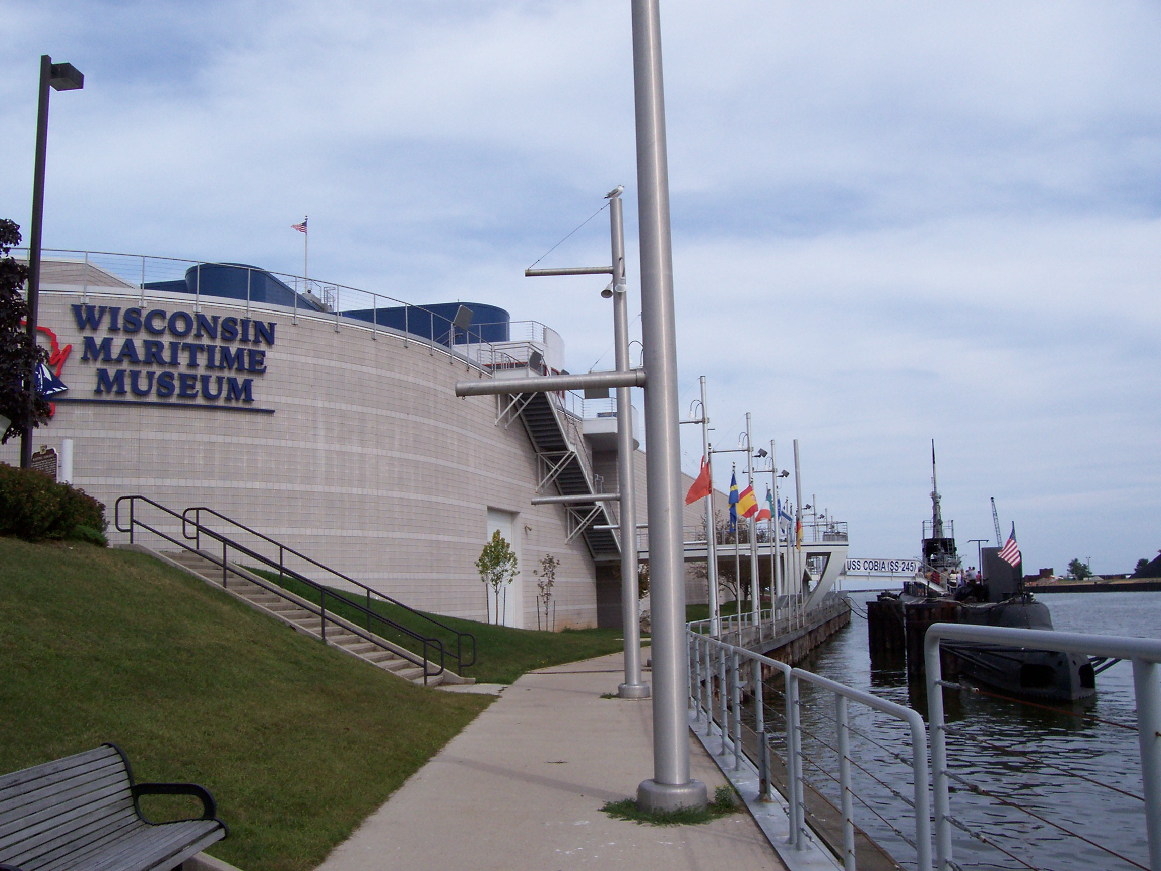 A picture of the Wisconsin Maritime Museum and the U.S.S. Cobia in Manitowoc, Wisconsin. This image was taken August 27, 2006 by User:Royalbroil Category:Images of Wisconsin